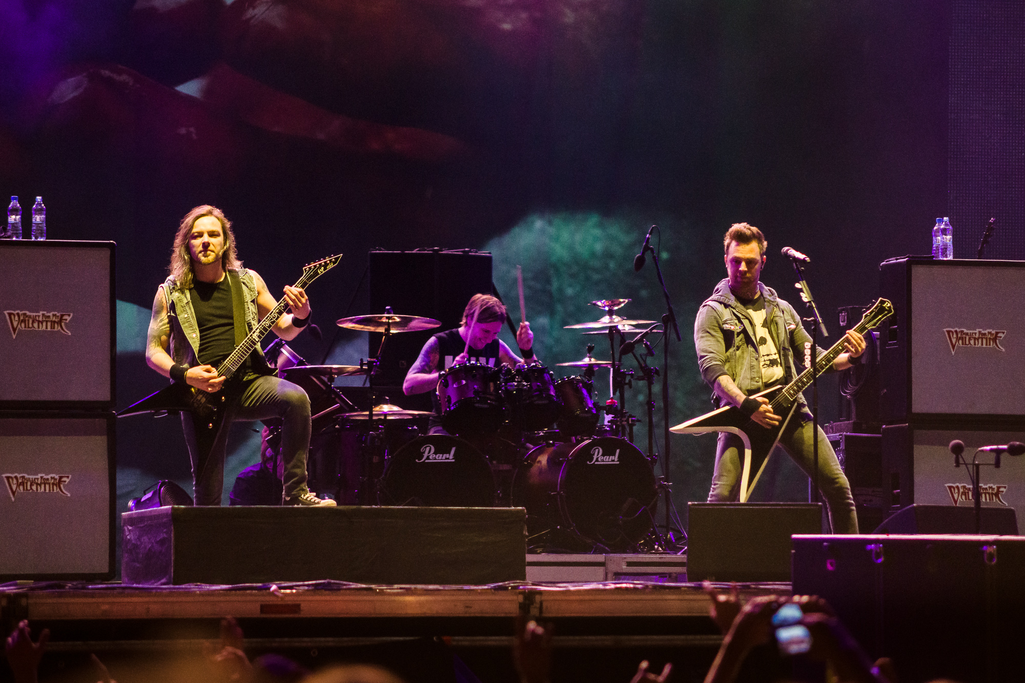 Bullet for My Valentine band during Ursynalia 2013 Warsaw Student Festival, Poland. This photo was taken with Sony SLT-A77 camera, thanks to cooperation with Sony Poland.You can see all photographs in category Taken with Sony SLT-A77. English | polski | +/−